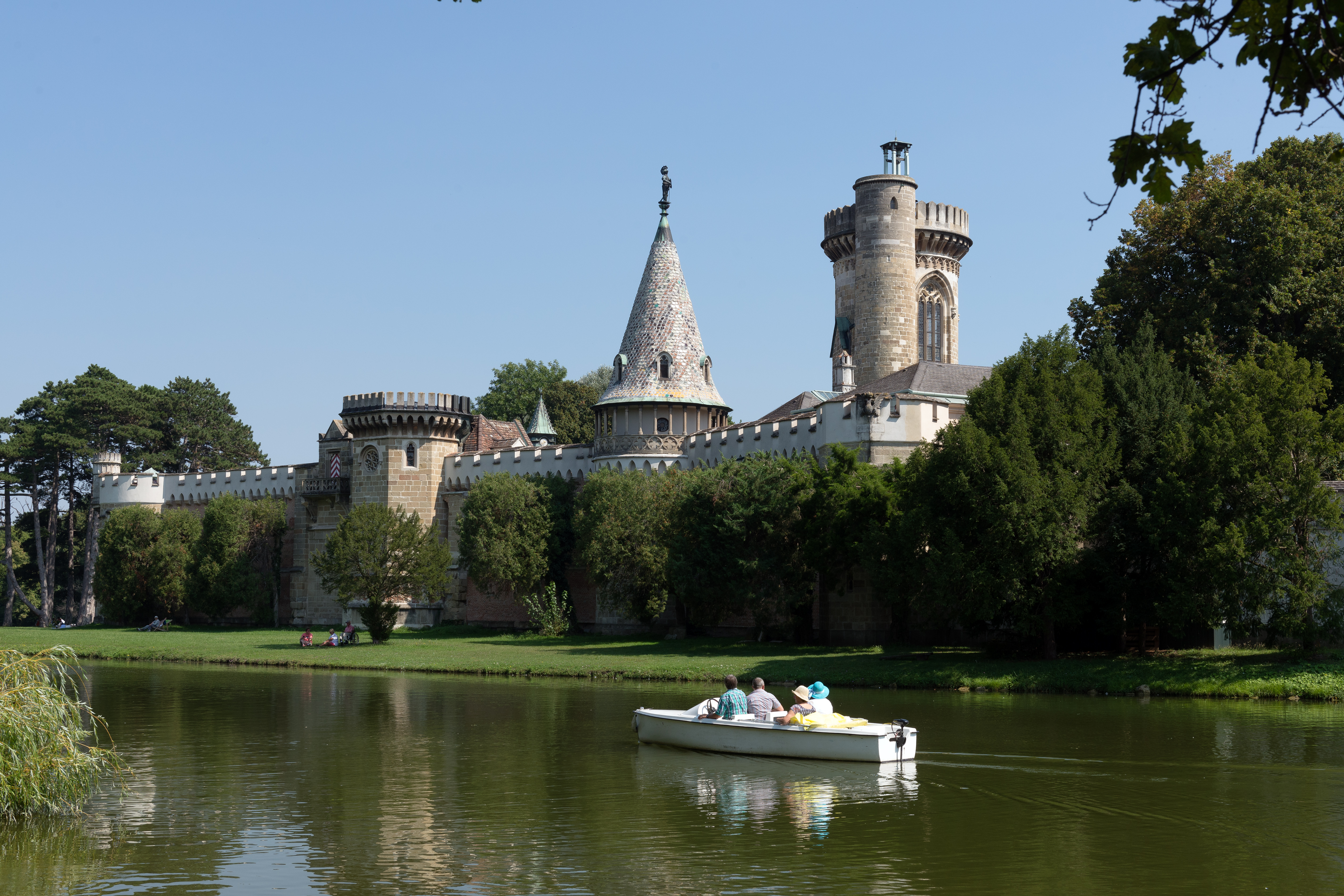 At the landscape garden (Laxenburg castles) in Laxenburg, Lower Austria, Austria.